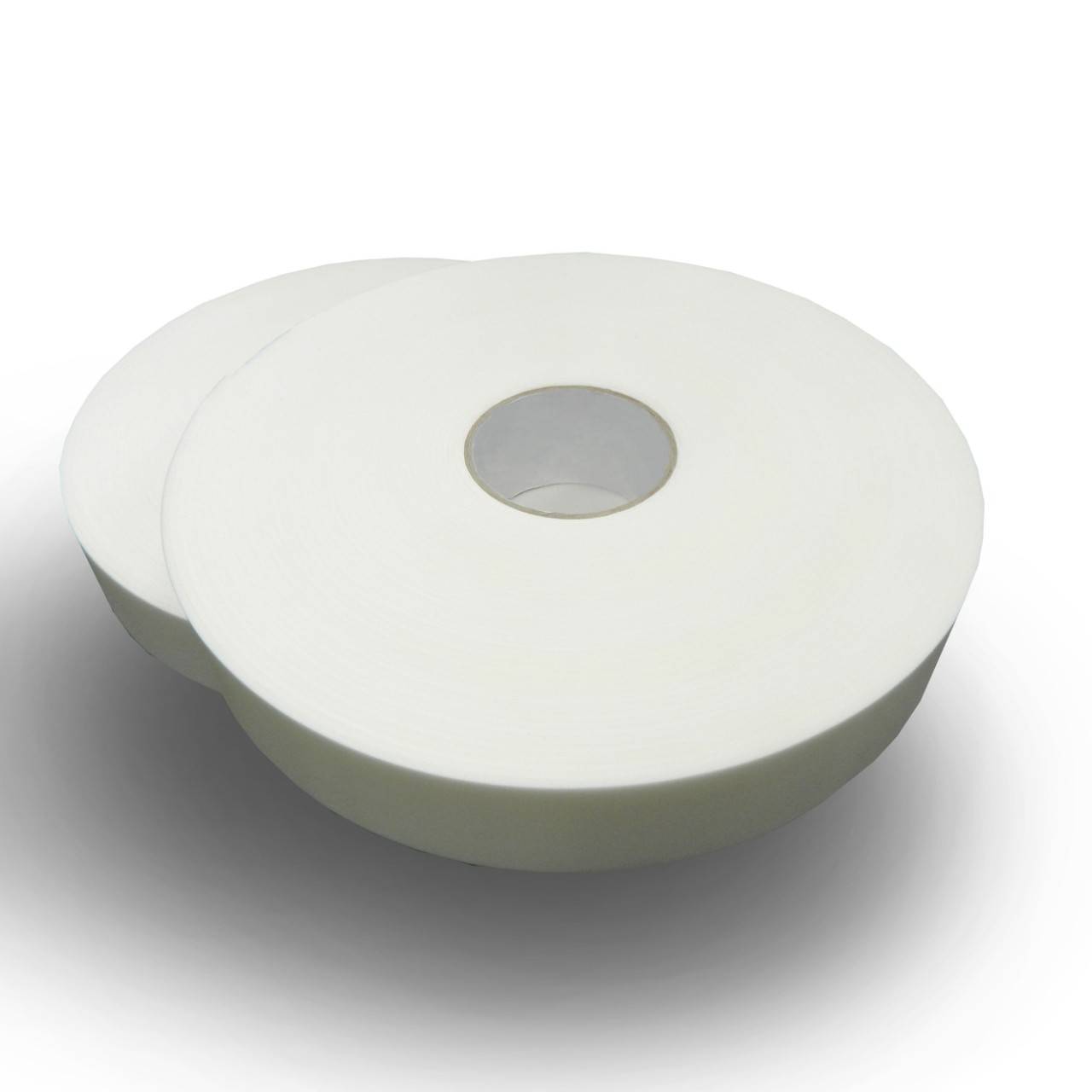 physically cross-linked polyethylene foam with an adhesive layer, in the form of a roller